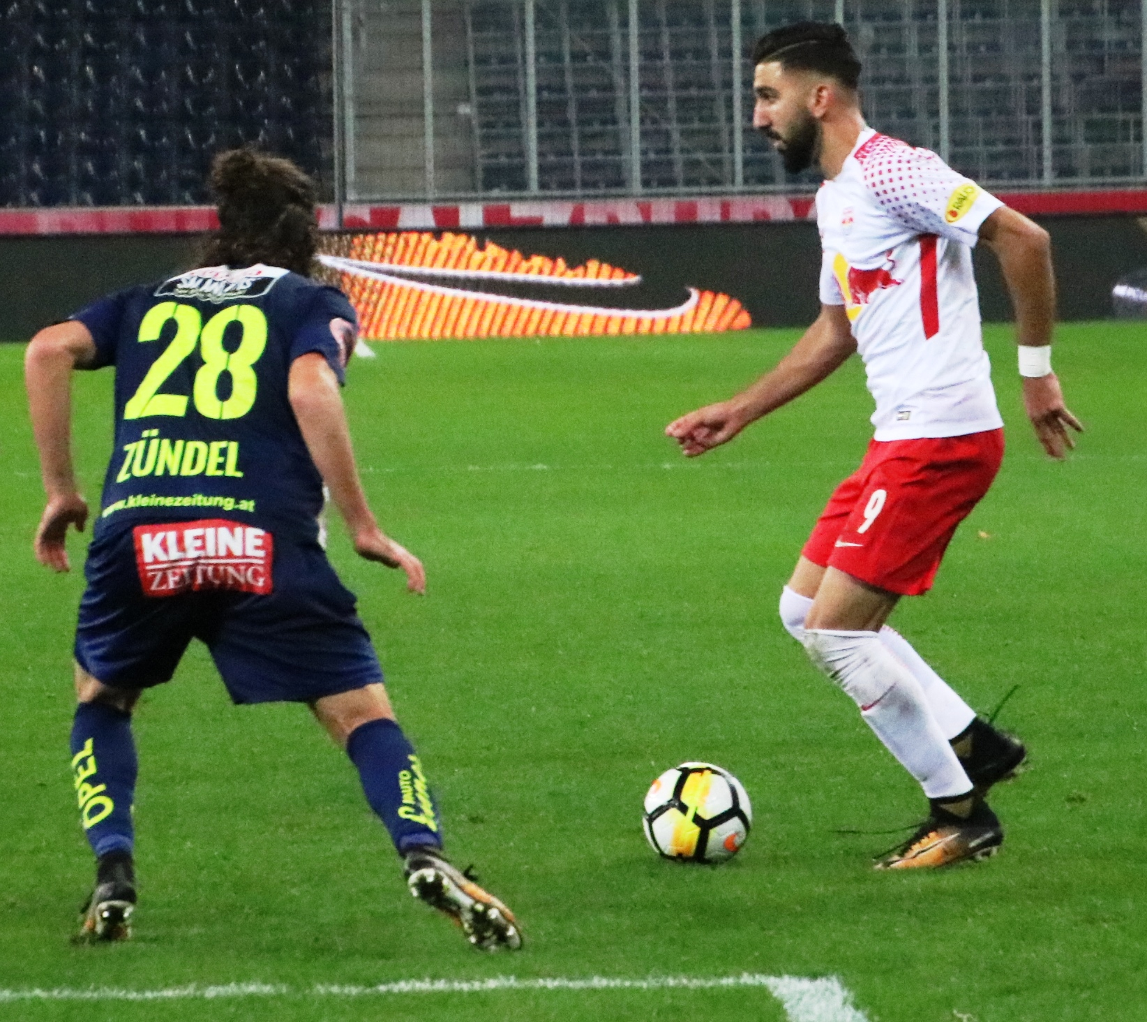 Austrian Bundesliga league match